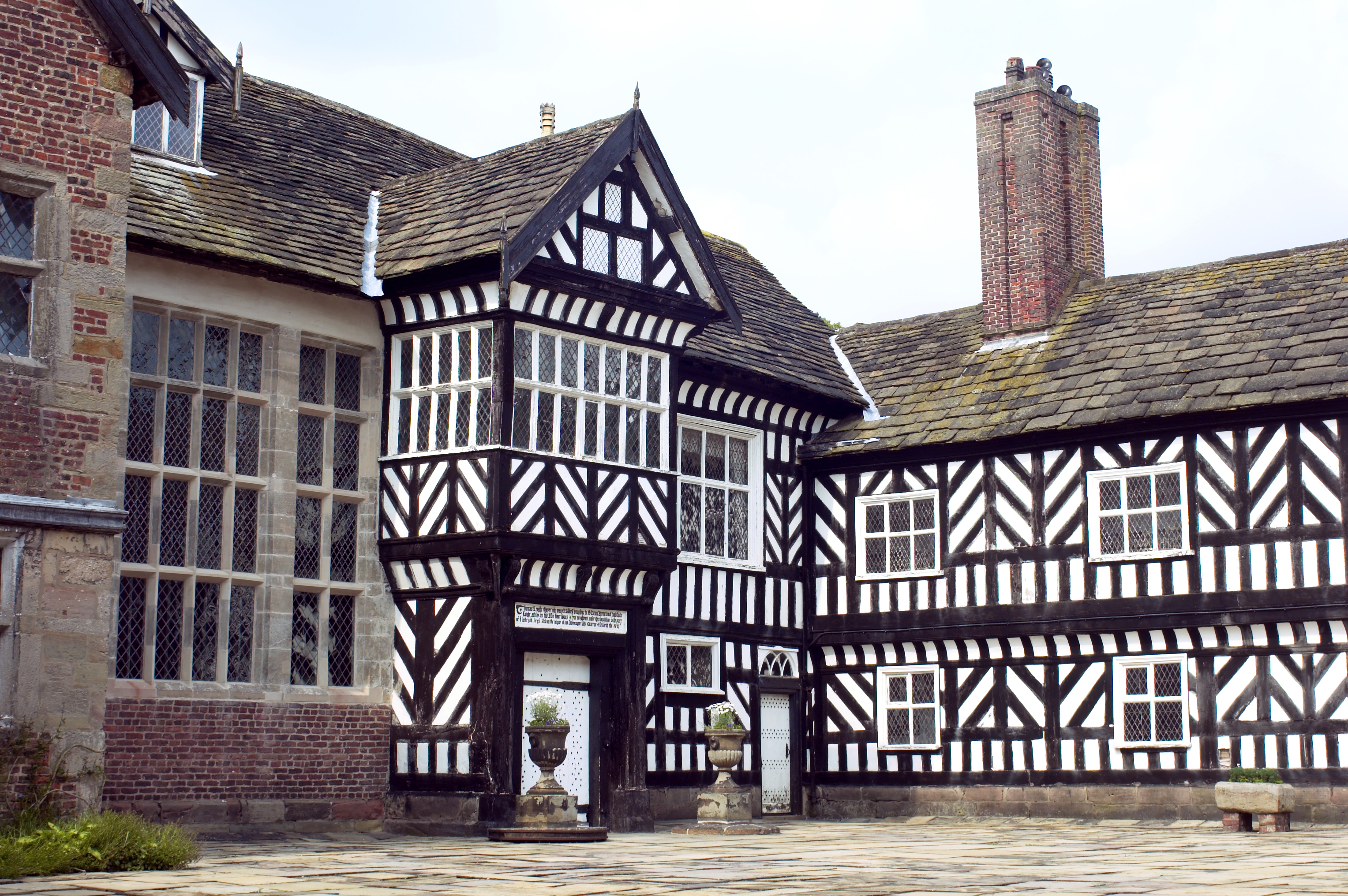 Photograph of the courtyard